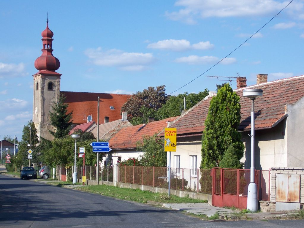 Village of Rostoklaty with St Martin church, Kolín District, Czech republic